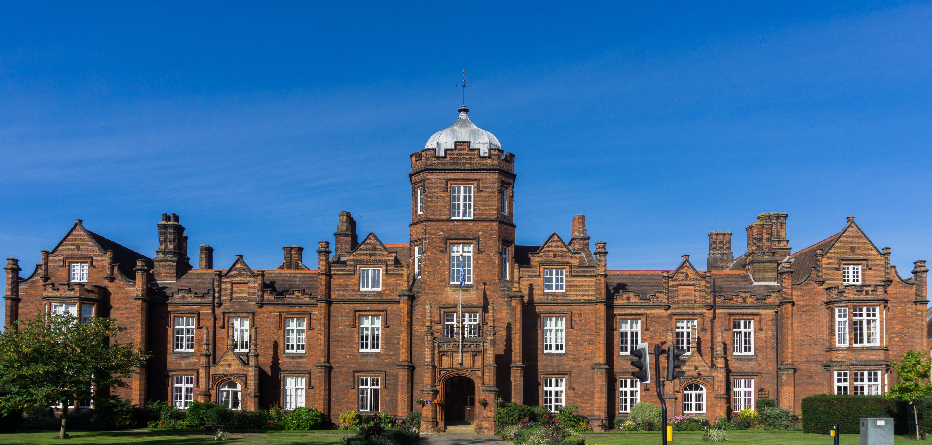 Ipswich School Wikidata has entry Q6065634 with data related to this item.